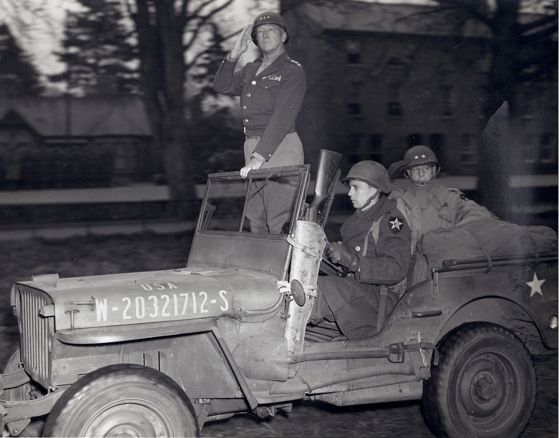 Original caption: “ Lt. Gen. Patton with Maj. Gen. Walter Robertson pass in review of Third Army Troops in April 1944 prior to the Normandy invasion in June. US Army photo. ”